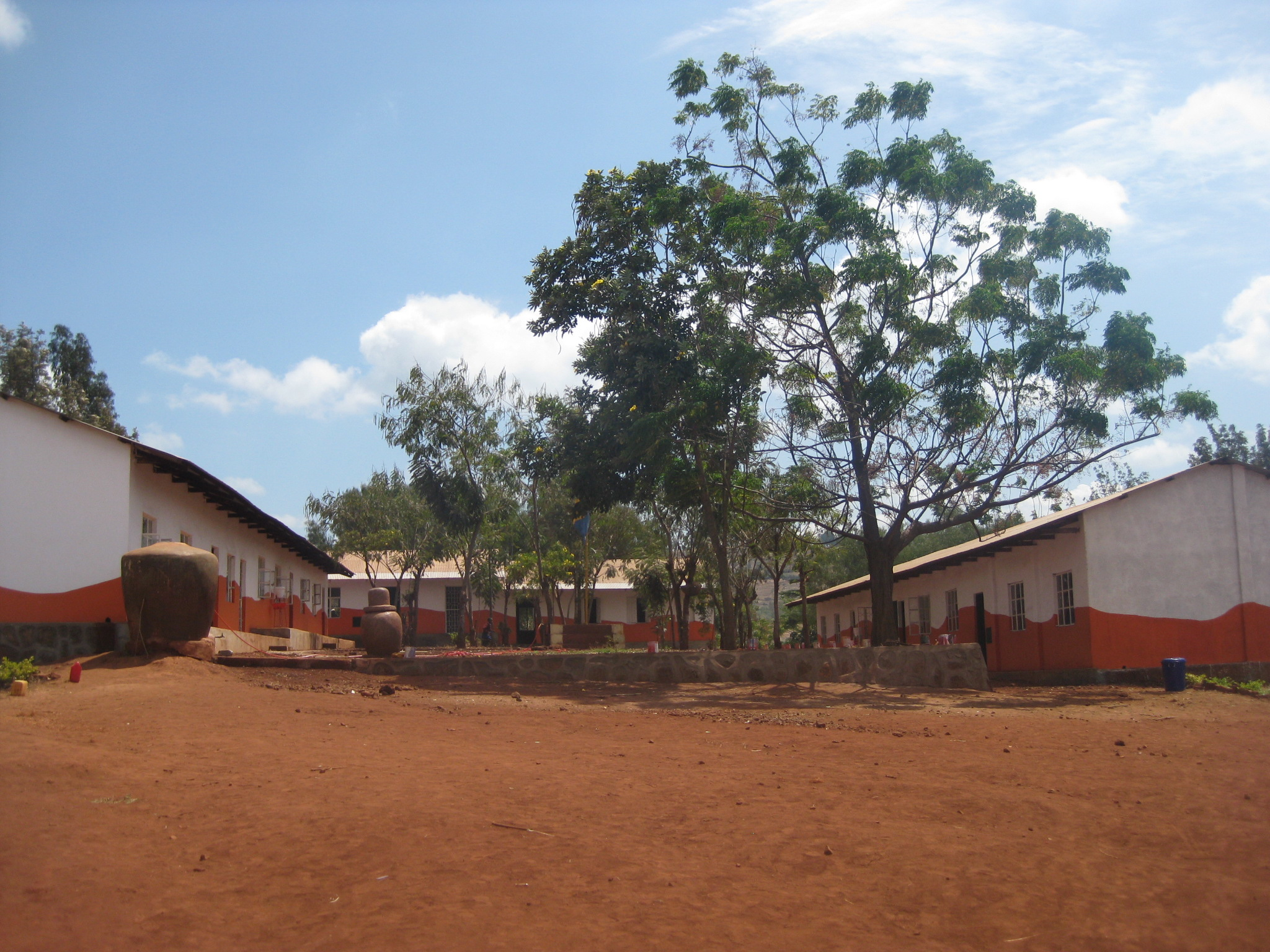 A primary school in a village near Karatu, Tanzania